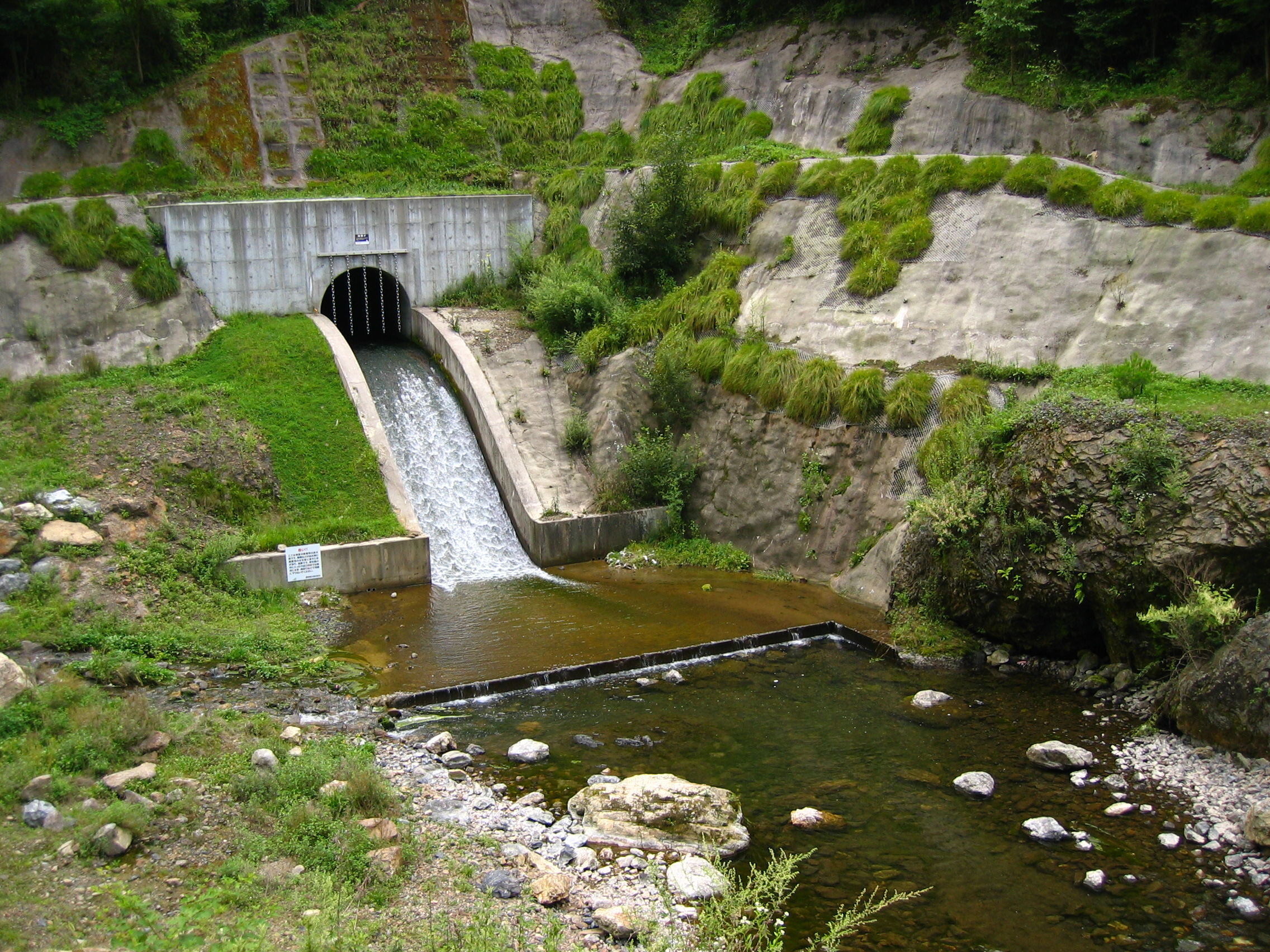 That is a exit of bypass tunnel in Minamiaiki Dam (南相木ダム).